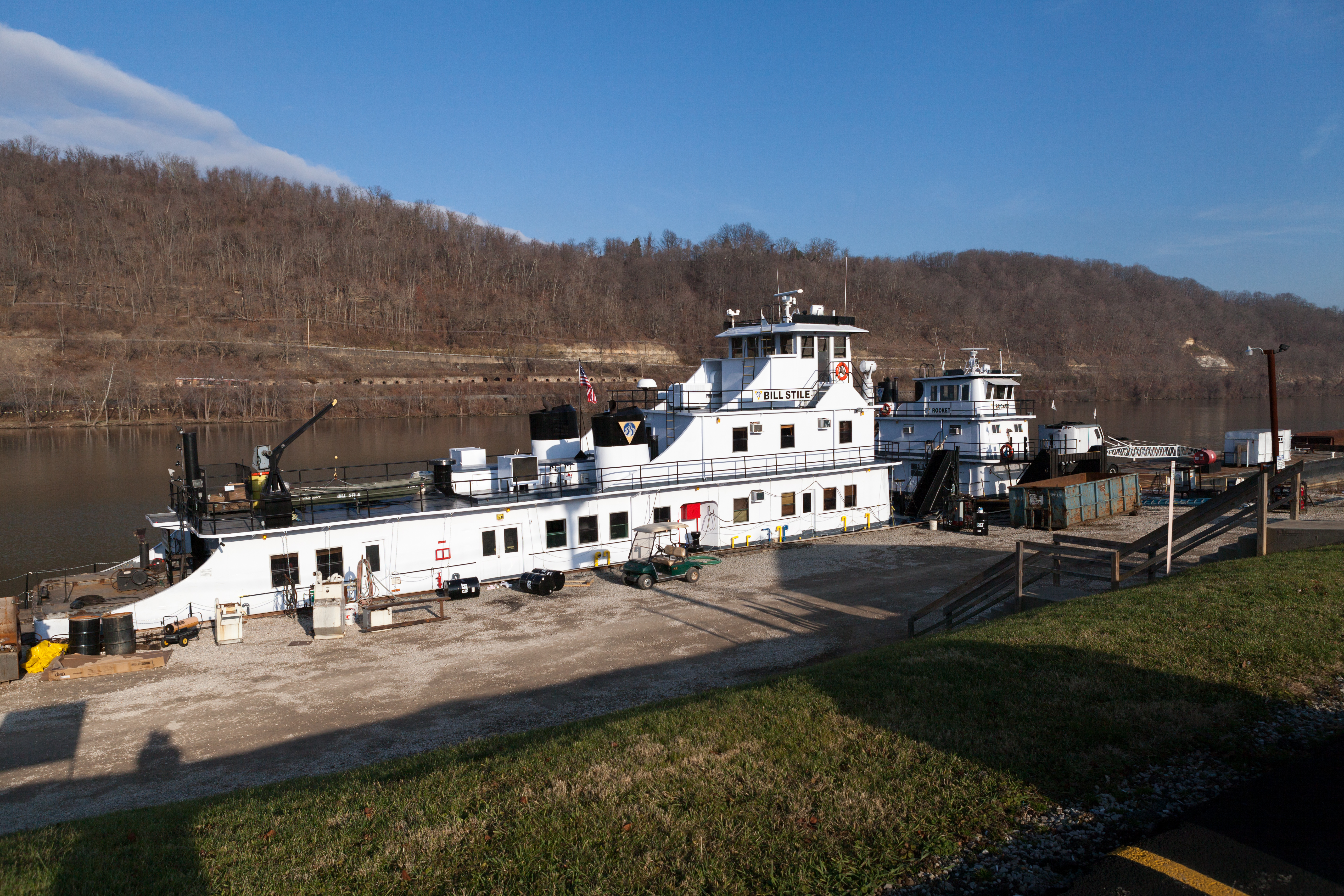 Commercial docks at the end of Wharf St in Dunlevy, Pennsylvania. The Bill Stile tug and the Rocket tug are docked.